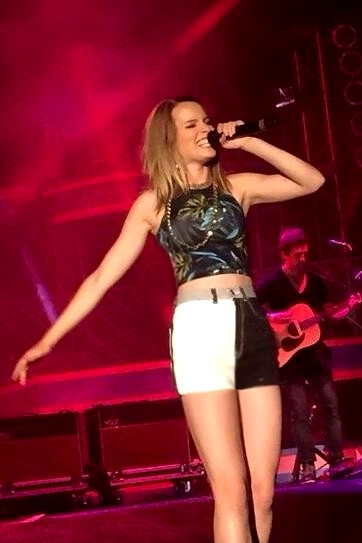 Bridgit Mendler performing at Busch Gardens in Tampa, Florida, in July 5, 2014.